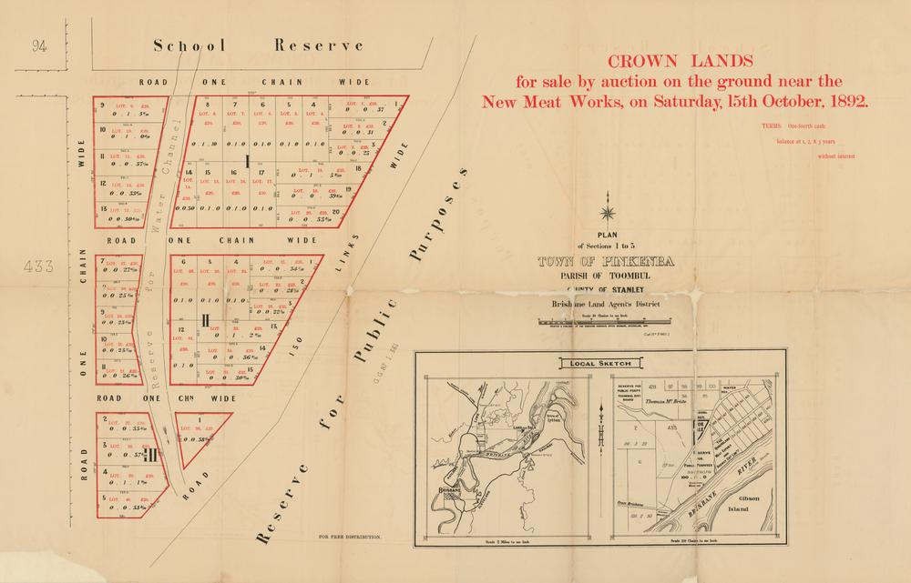 Estate map of the Town of Pinkenba, Brisbane, Queensland, 1892 Estate map showing allotments to be sold on the grounds near the new meatworks on 25 October 1892. The plan includes a local sketch of the area.